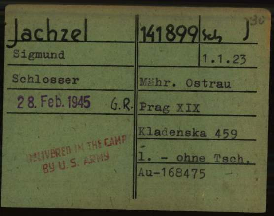 Registration card of Sigmund Jachzel (birth name of Sigmund Toman) as a prisoner at Dachau Nazi Concentration Camp. Red stamp means he was liberated from Dachau by the U. S. Army.